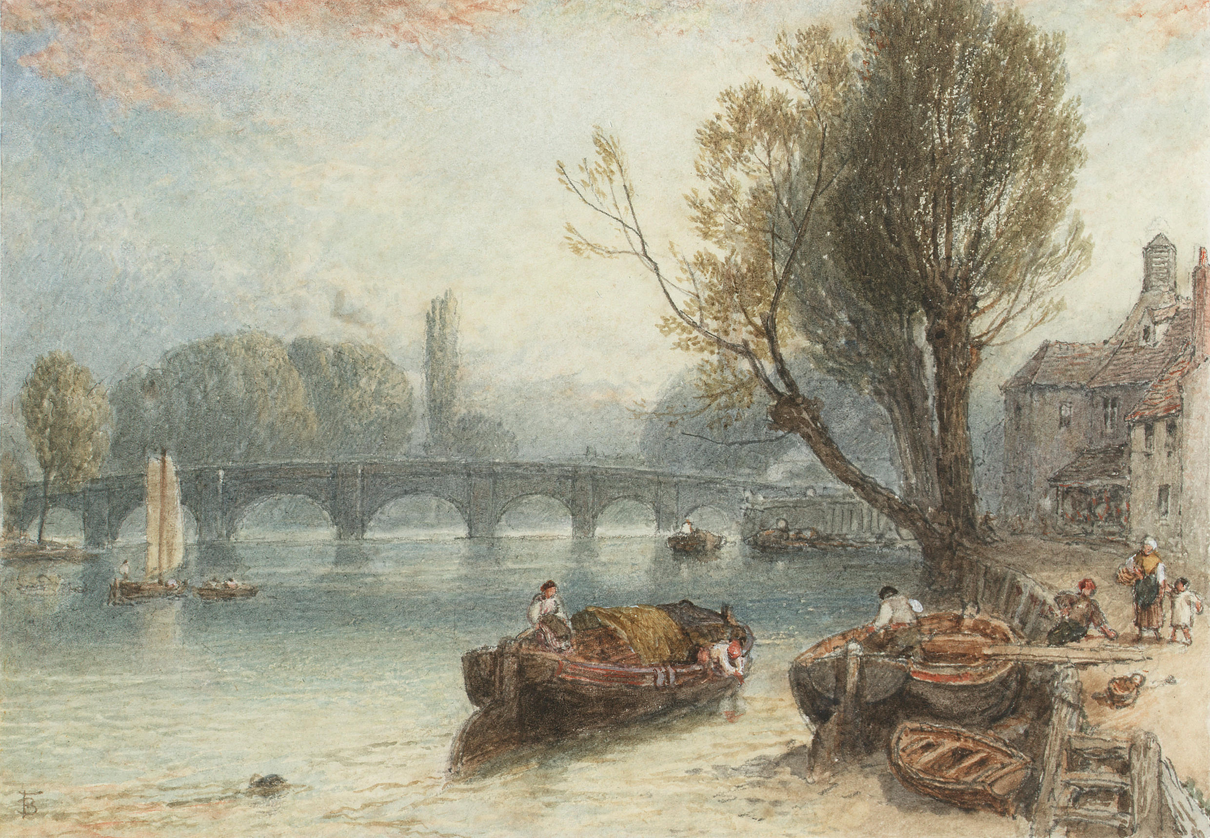 Kew Bridge from Strand on the Green. Signed with monogram, watercolour heightened with white, 9.6 x 14 cm